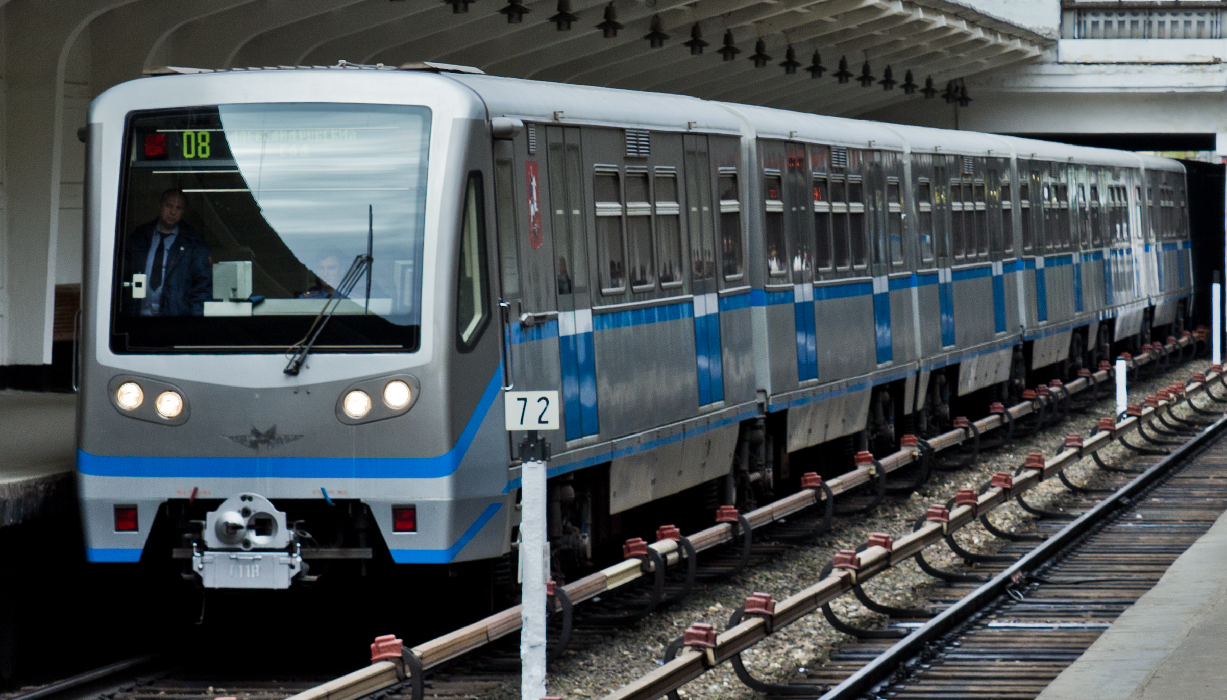 Fili Moscow Metro station.